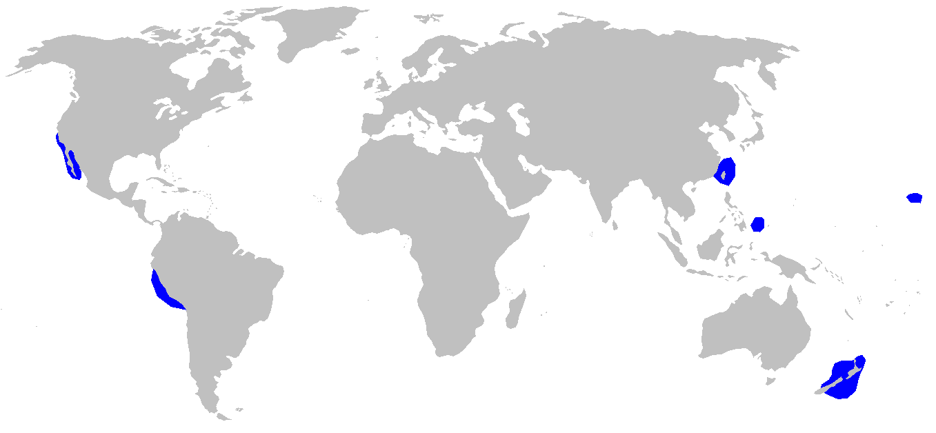 Distribution map for Echinorhinus cookei